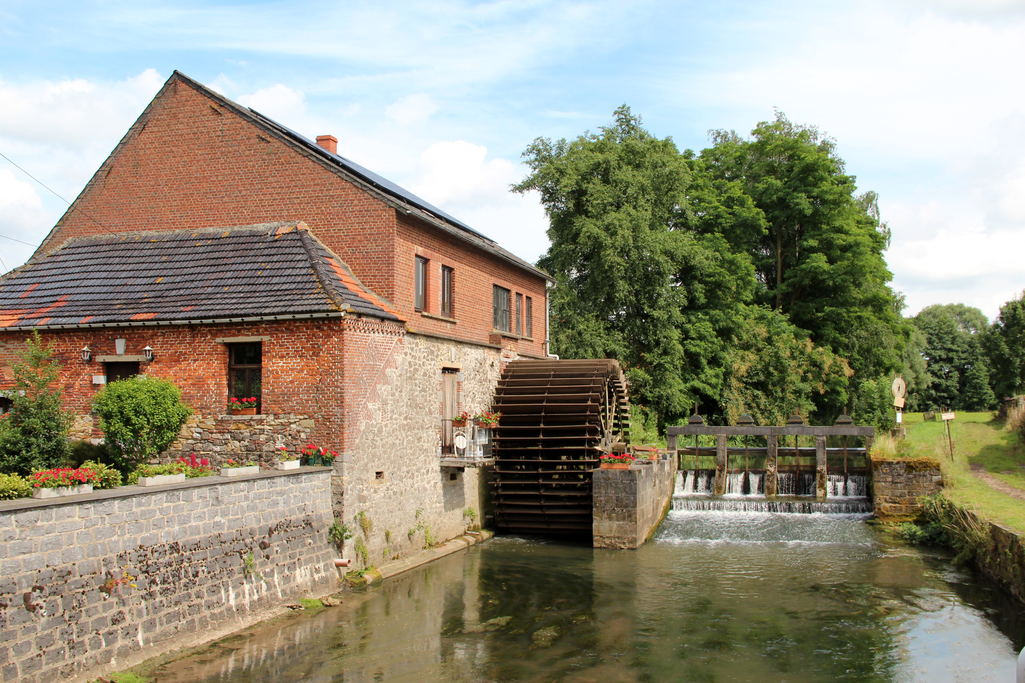 Mévergnies-lez-Lens (Belgium), the Thully watermill (XVI/XXth centuries) on the Dendre Orientale.